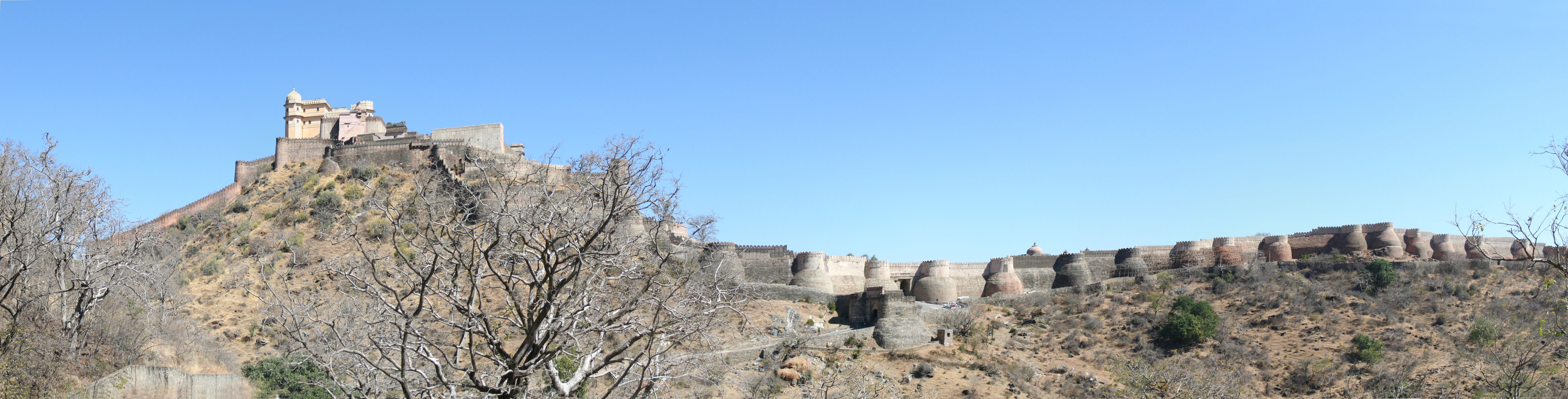 Fort and Walls of Kumbhalgarh